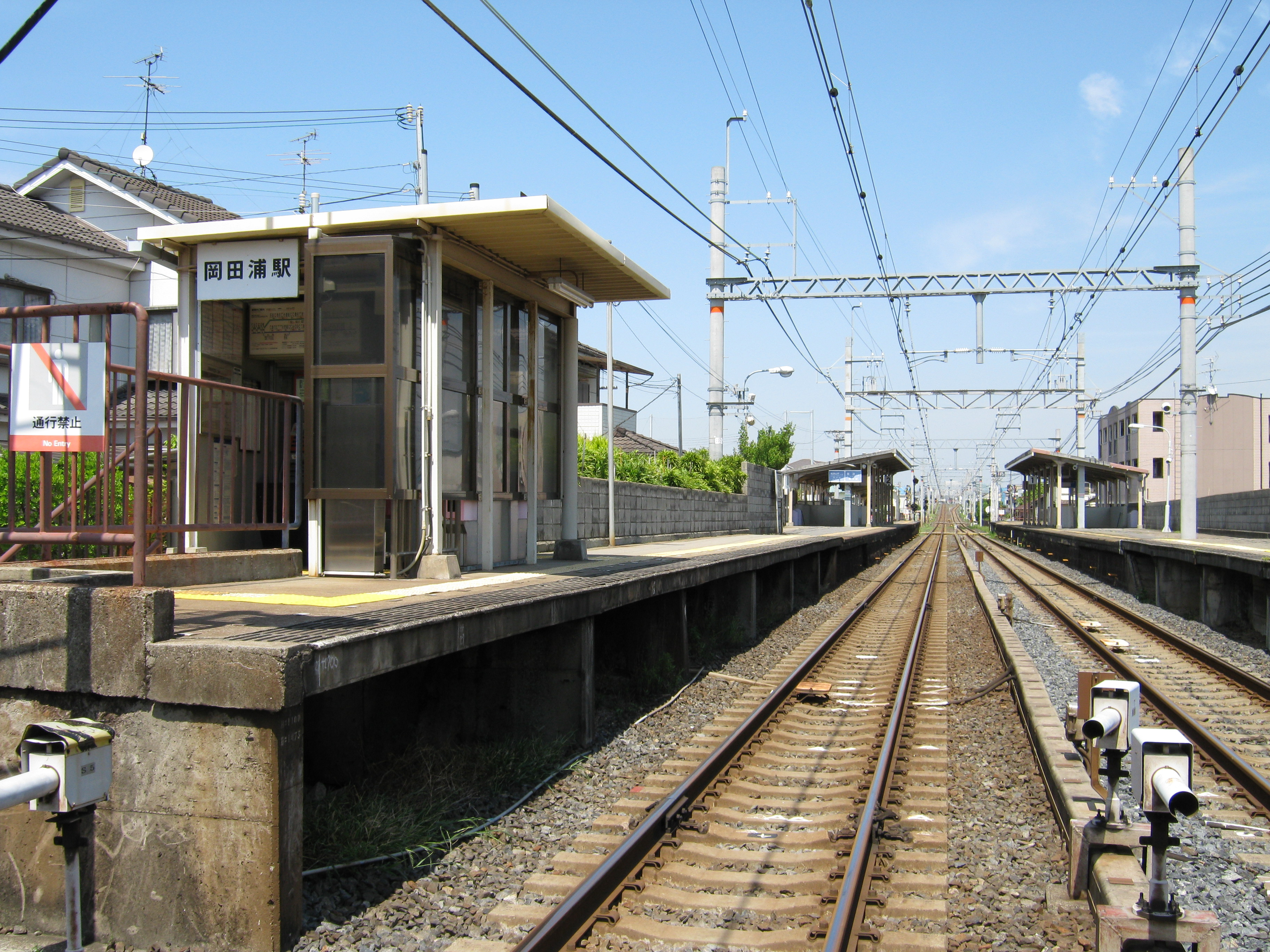 The photo of the Nankai Electric Railway Okadaura station taken from south. Sennan, Osaka, Japan.